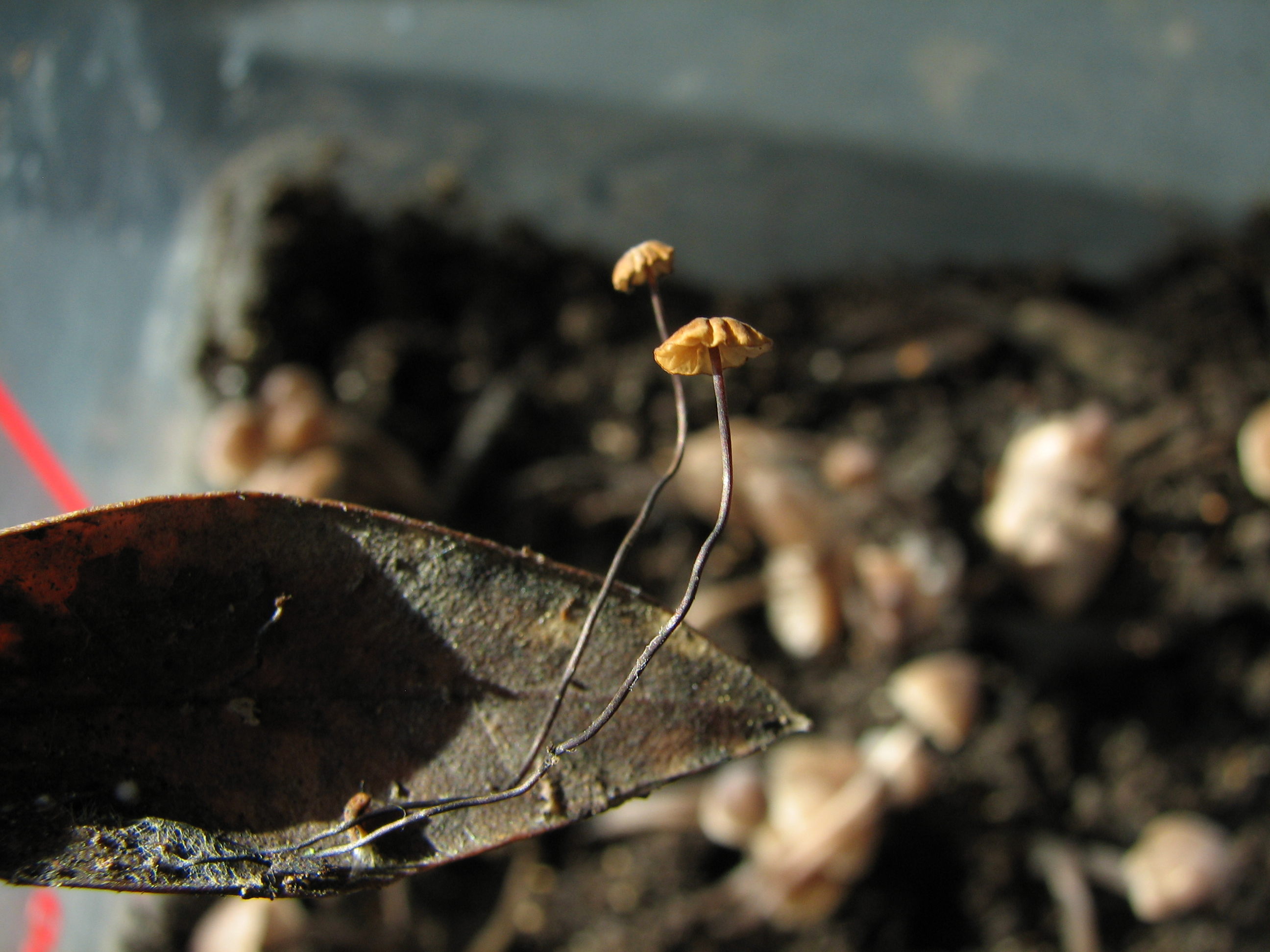 Fruit bodies of the agaric fungus Cryptomarasmius corbariensis (Roum.) T.S.Jenkinson & Desjardin (formerly Marasmius corbariensis). Photographed in UC Berkeley, Campus, Berkeley, California, USA.